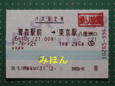 Highway Bus "La Foret" Ticket